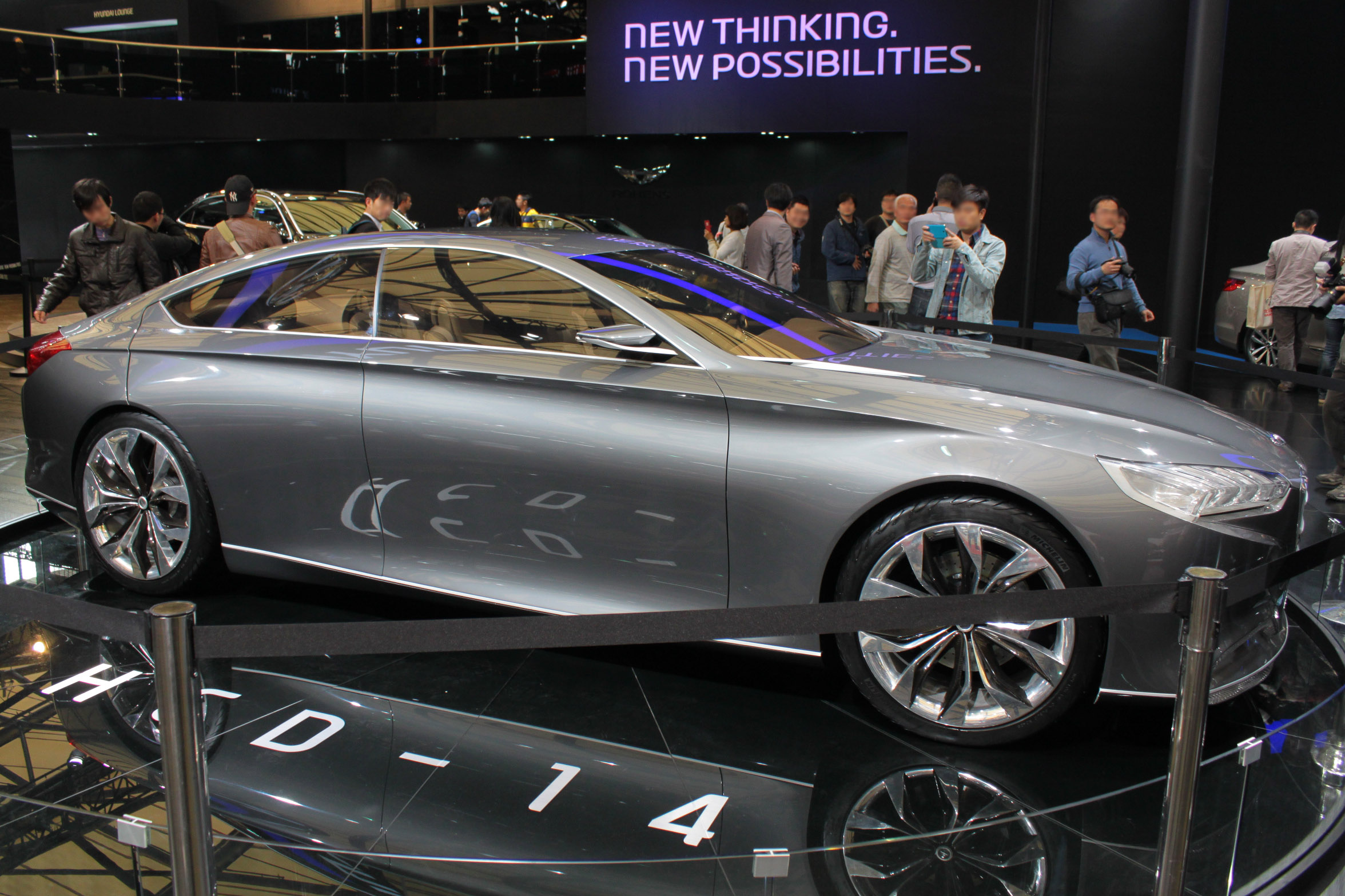 Hyundai HCD-14 Genesis Concept at Auto Shanghai 2013